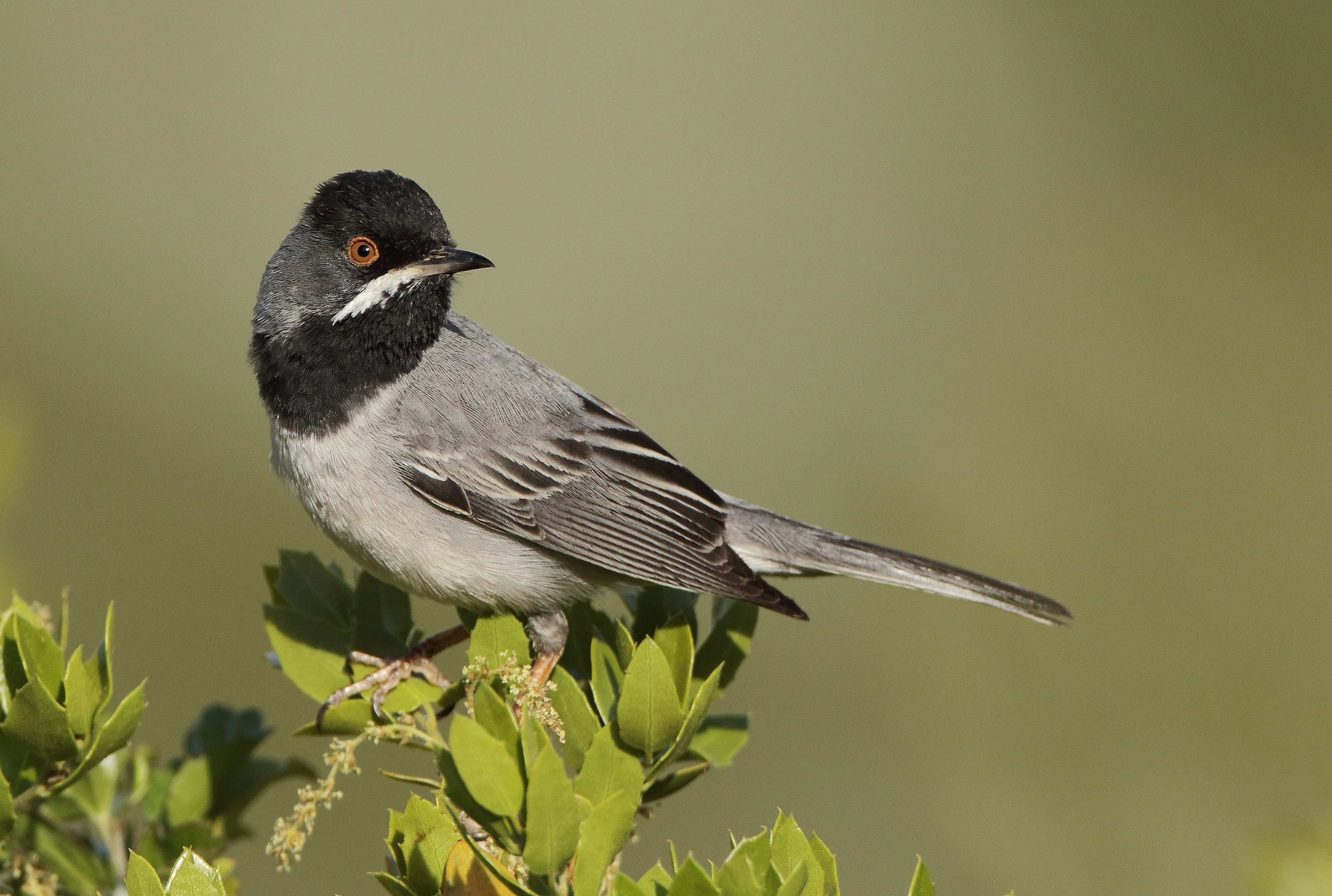 Ruppell's warbler (Sylvia ruppeli), at Hymettus, near Athens, Greece. This is a photography of Natura 2000 protected area with ID GR3000006